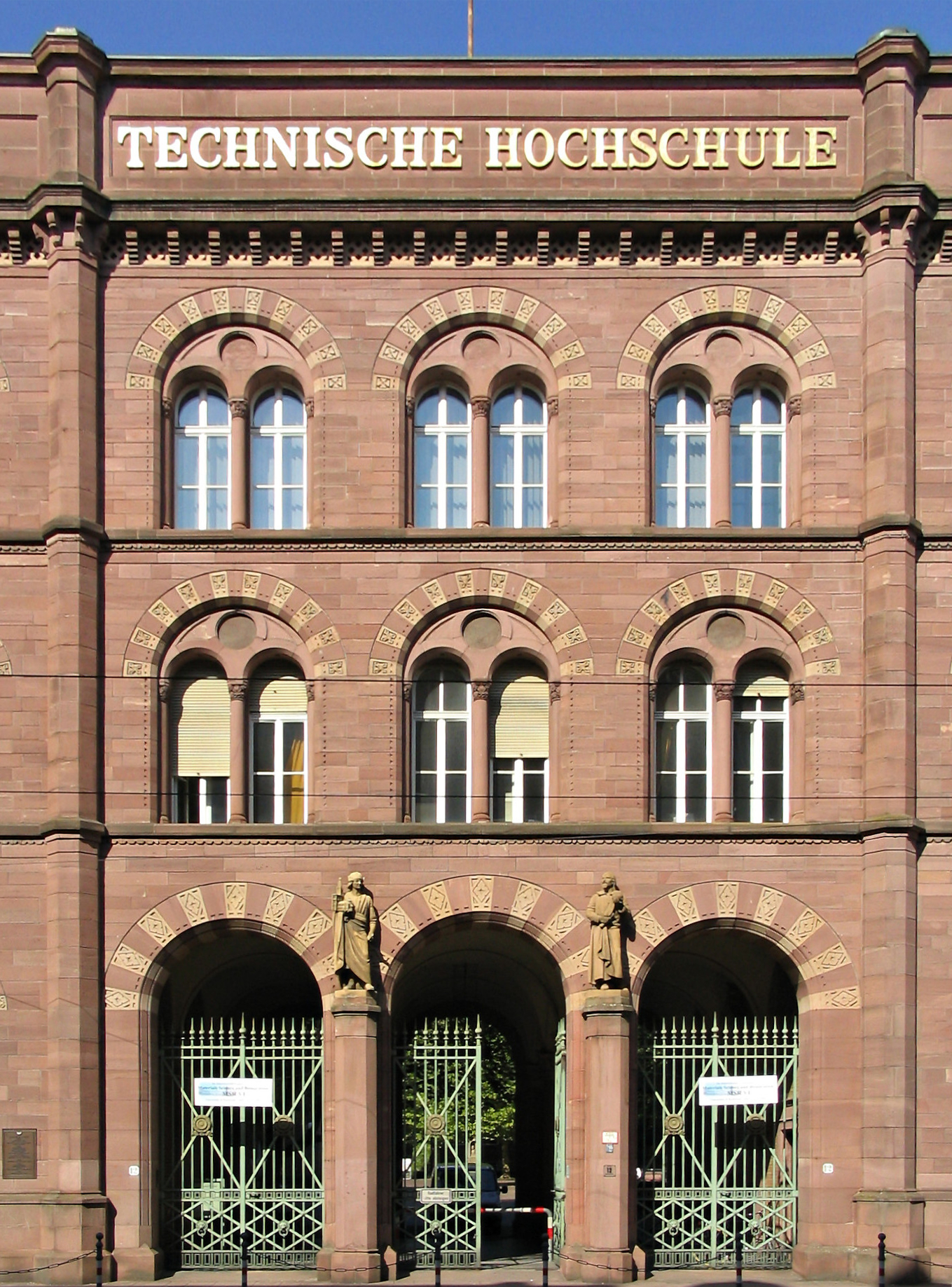 Old main entrance to the main building at the Polytechnicum in Karlsruhe (today: the Technical University), designed by Heinrich Hübsch and built 1833-36.